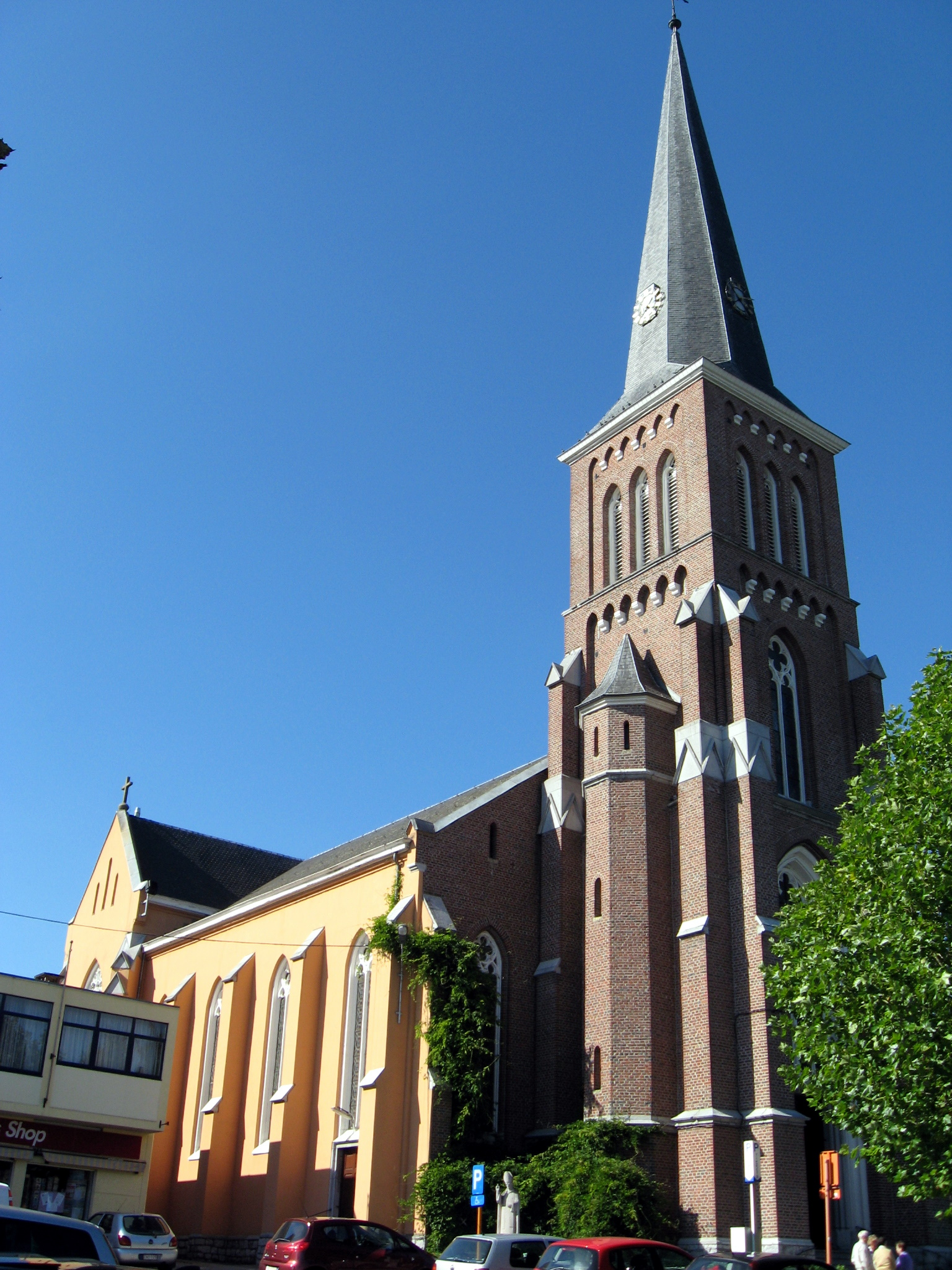 Church of the Assumption of Mary in Kelmis, Liège, Belgium